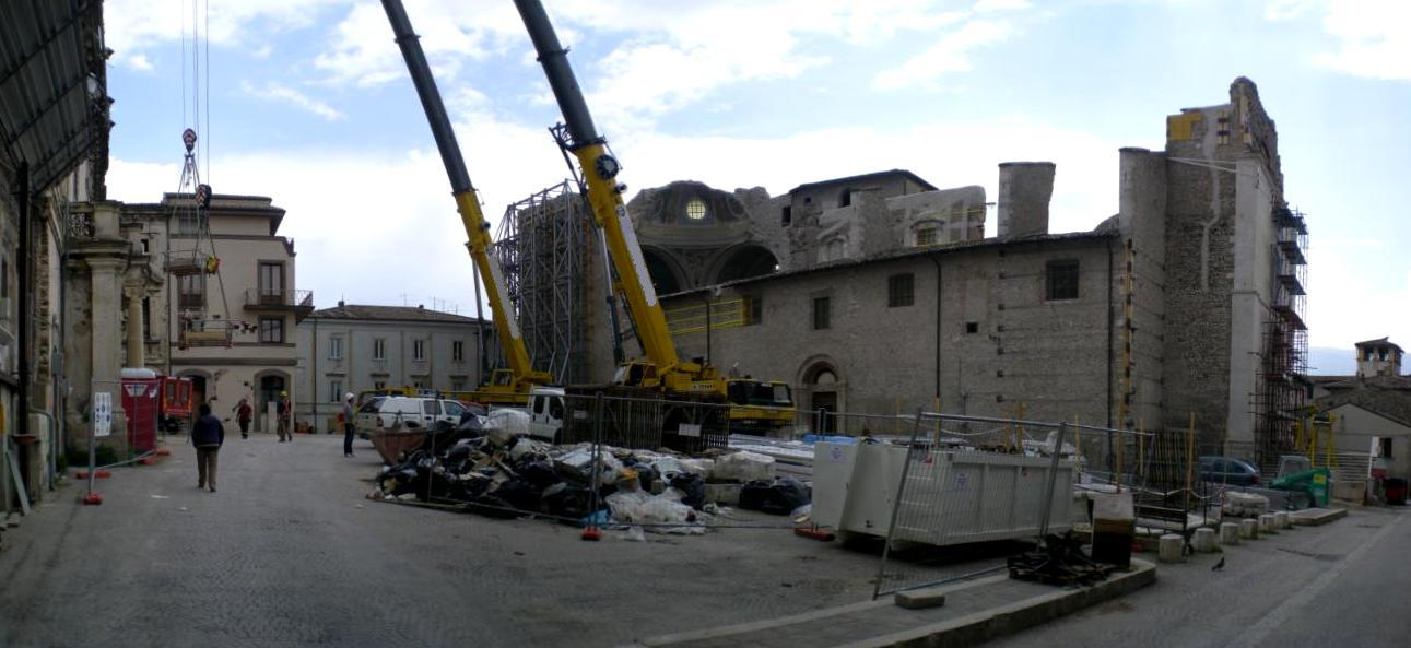 Church of Santa Maria Paganica in L'Aquila entirely destroyed by 2009 L'Aquila Earthquake